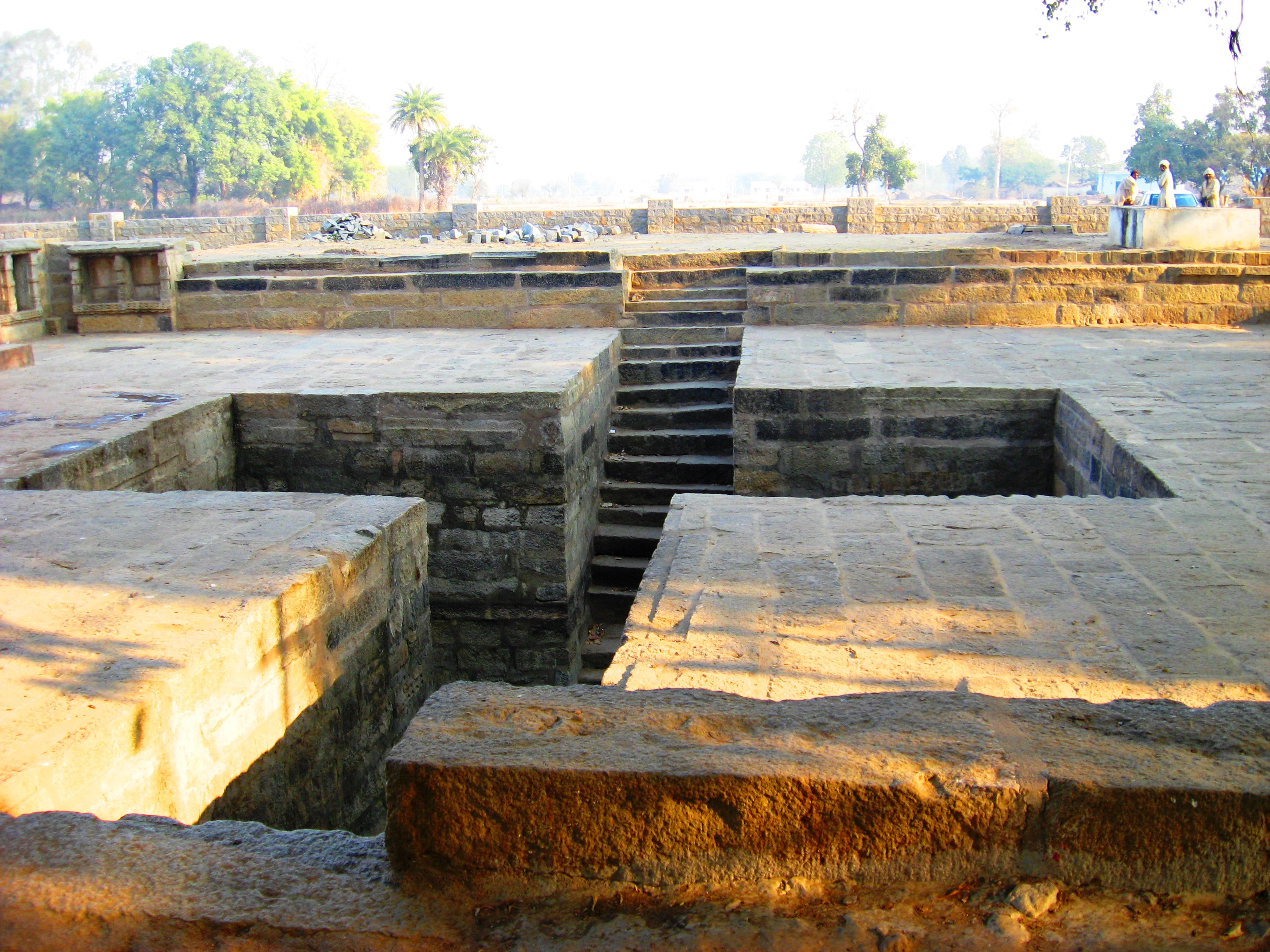 More than thousand year old yajna kund in village Akona near Kulpahar.